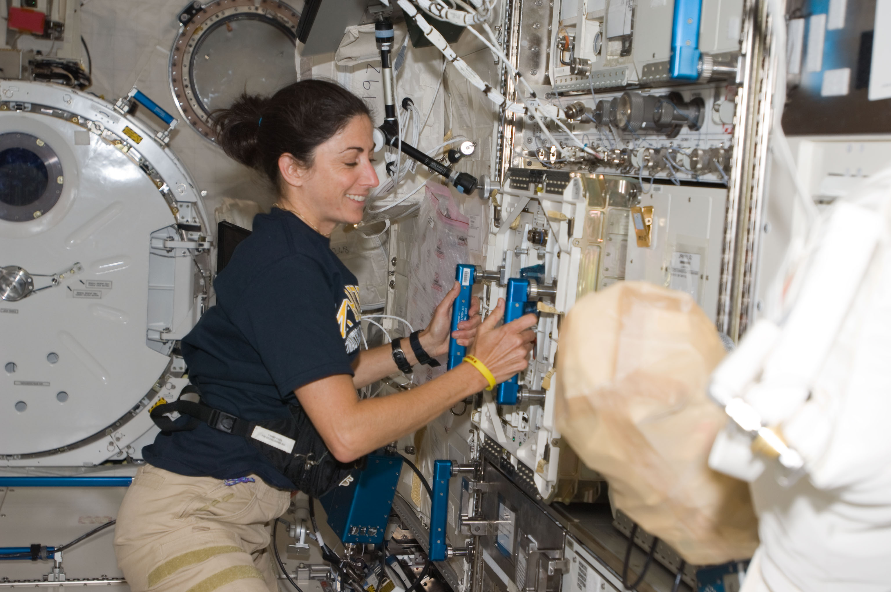 Astronaut Nicole Stott, Expedition 20 flight engineer, installs hardware in the Kibo laboratory of the International Space Station while Space Shuttle Discovery (STS-128) remains docked to the station.